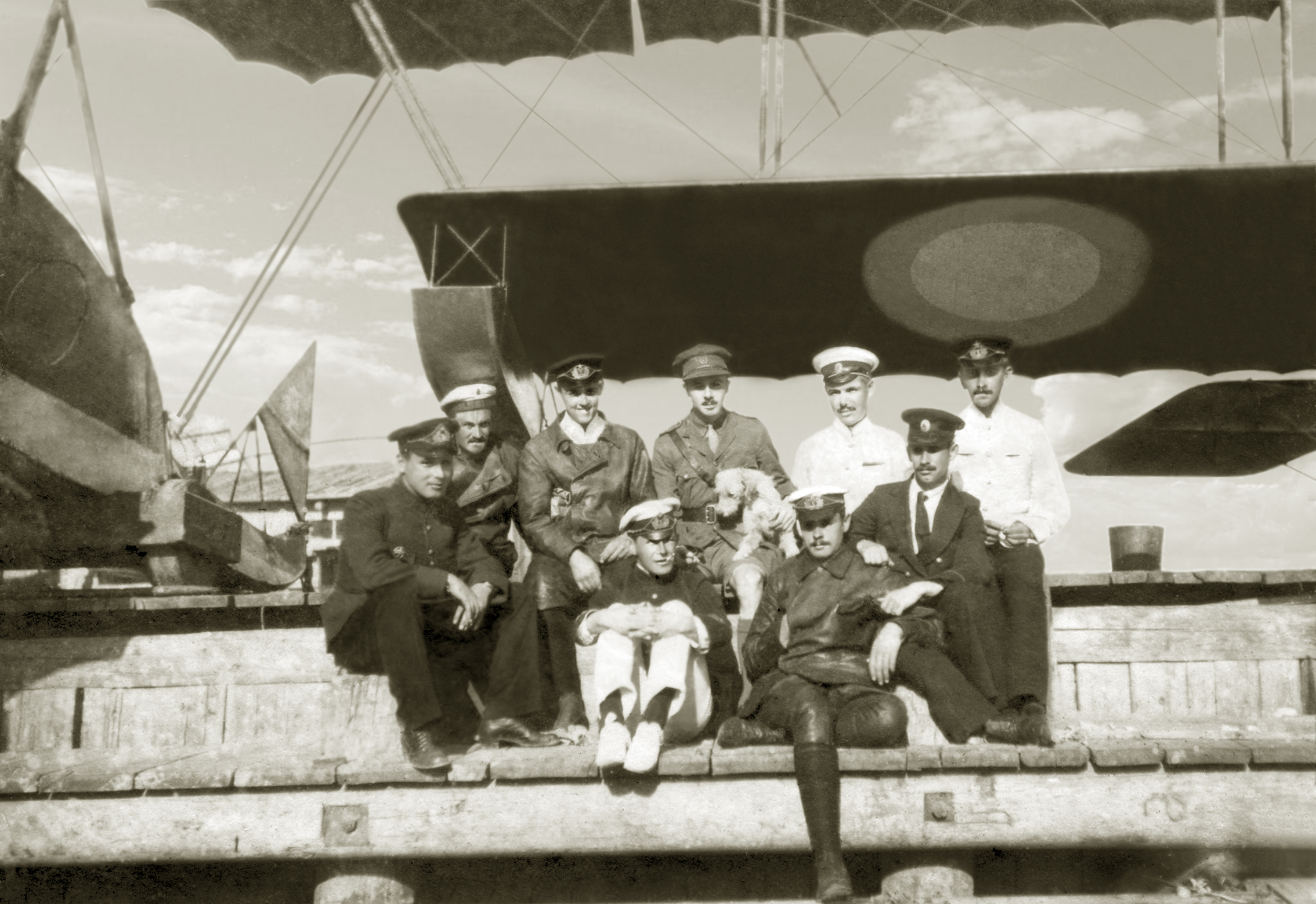 Naval Aviation Officer's School in Baku.